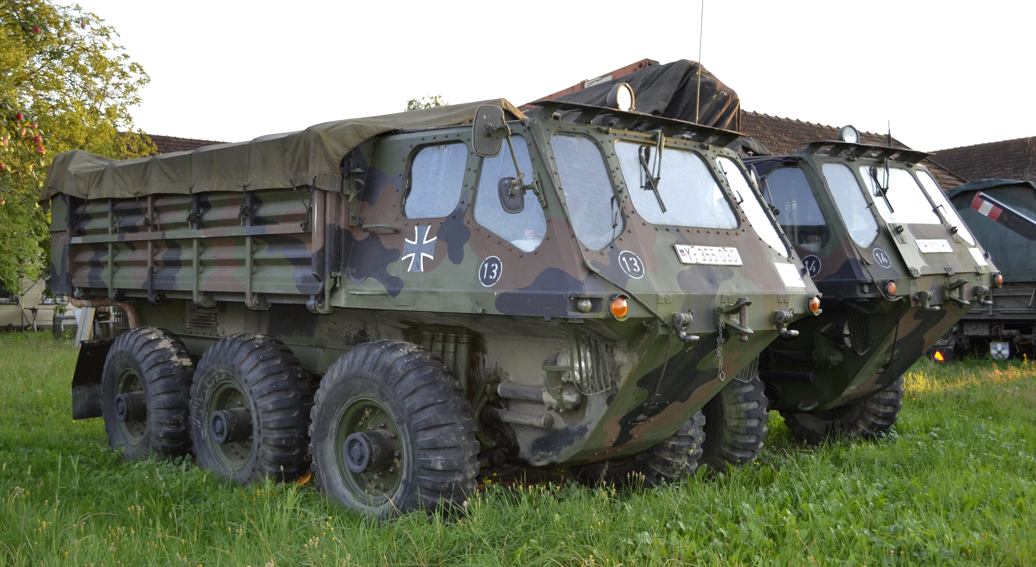 Two Alvis Stalwart HMLC Mark 2 that were used by the Bundeswehr.